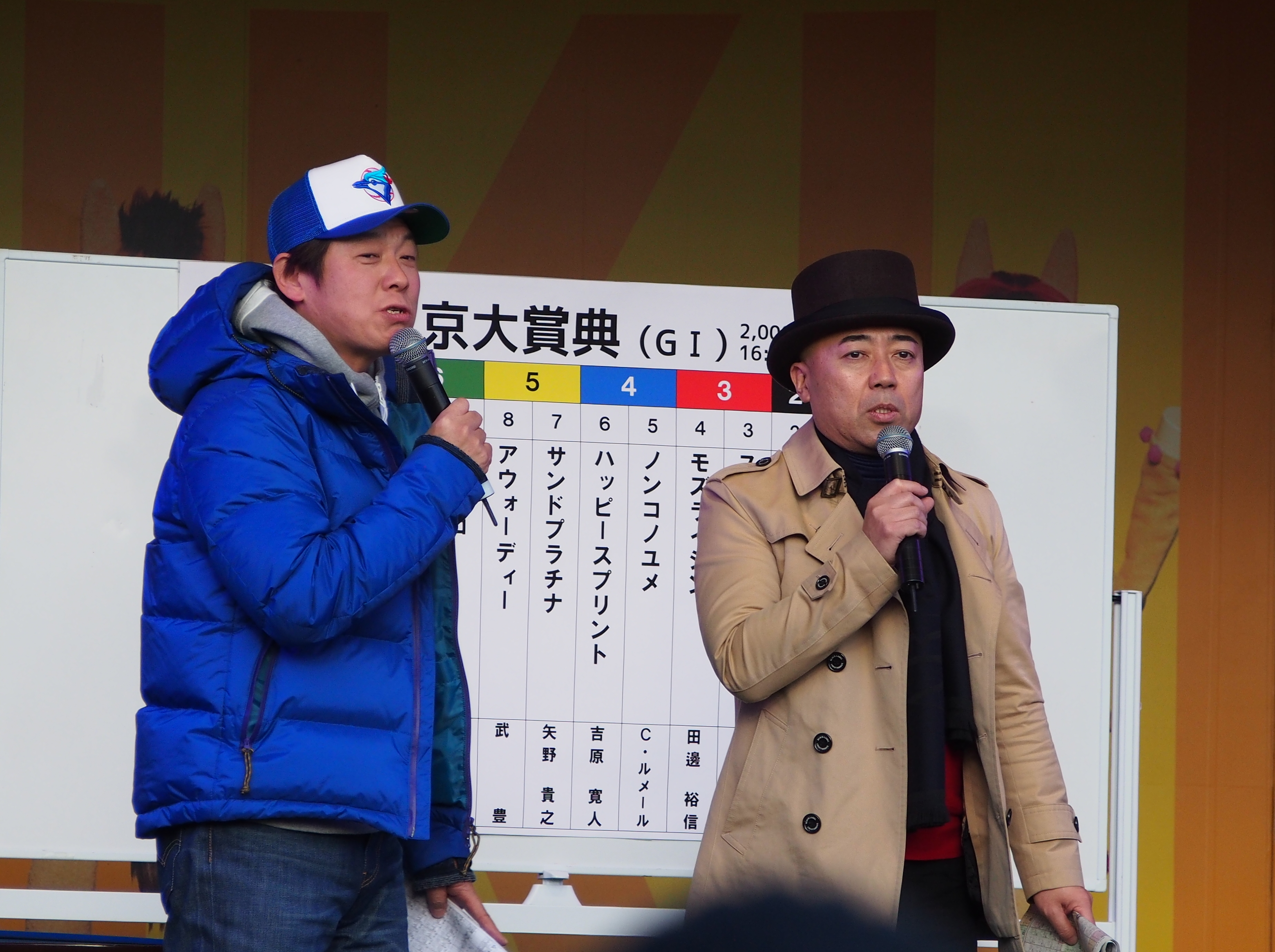 TIM in Tokyo Daishoten Day at Oi racecourse